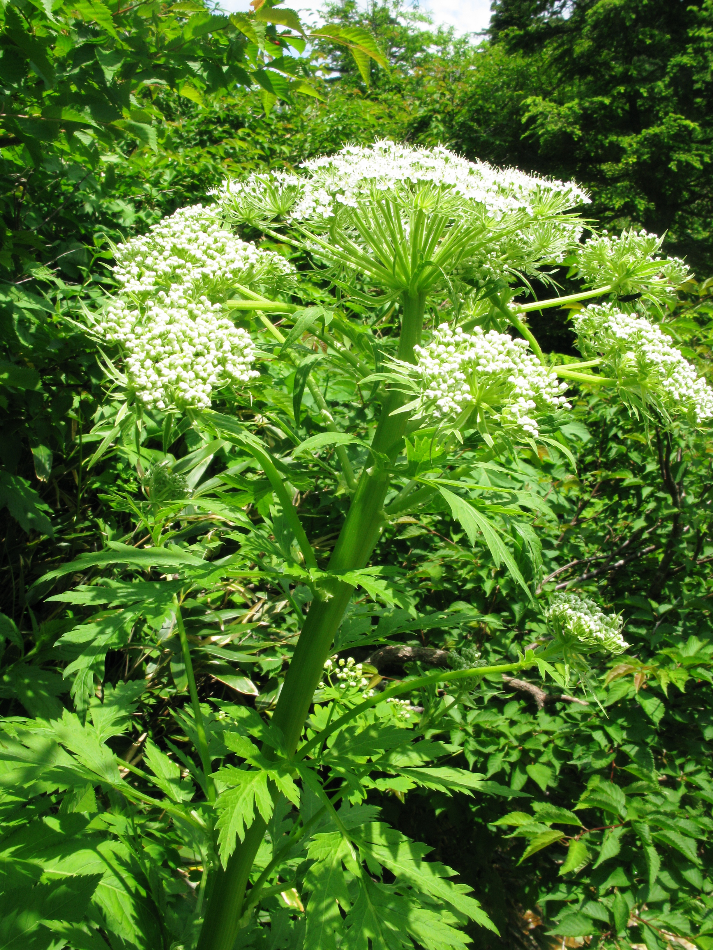 Pleurospermum uralense,Aizu area, Fukushima pref., Japan